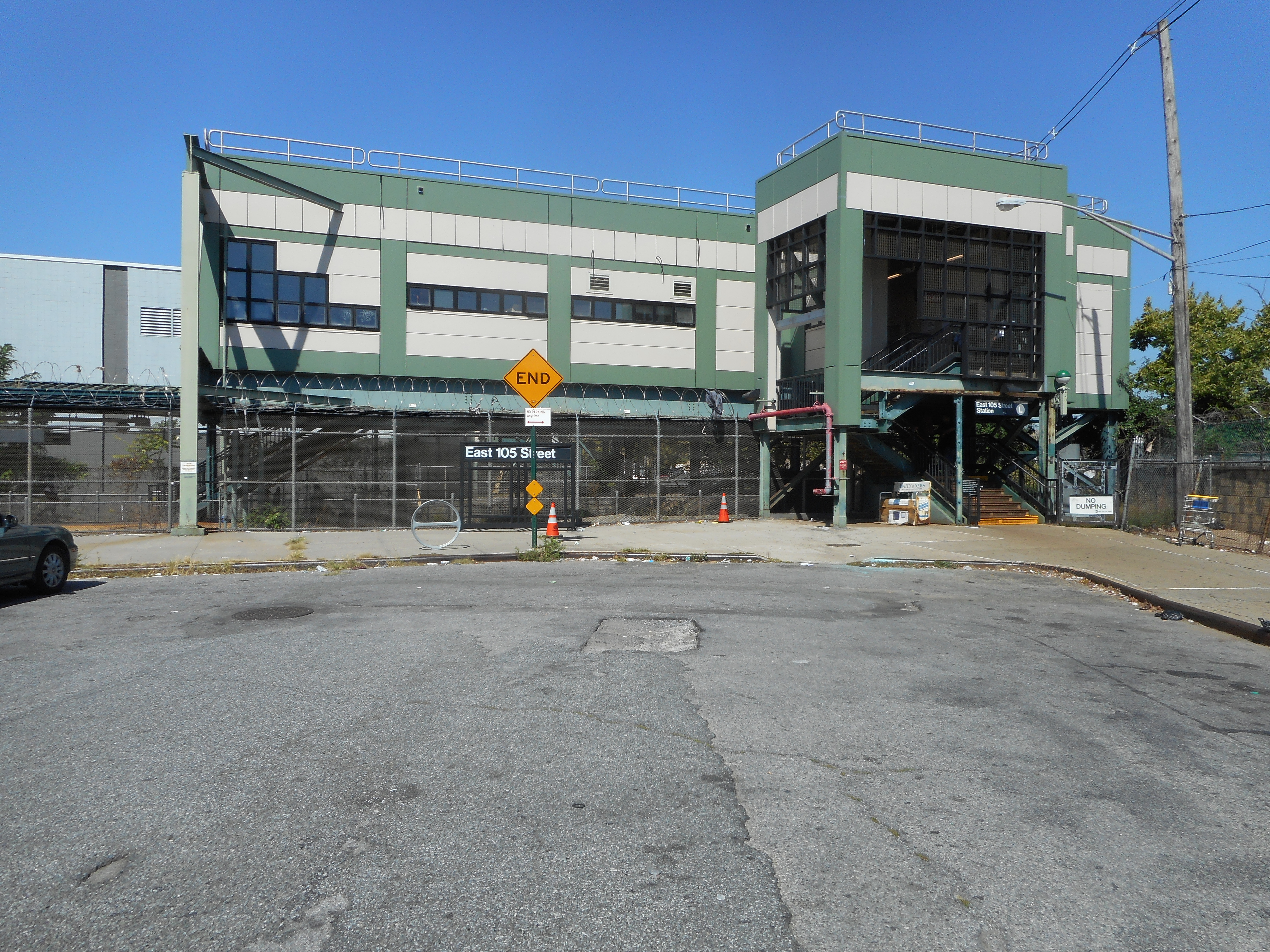 East 105th Street (BMT Canarsie Line) at the eponymous dead end street which had a grade crossing with the line until 1972, or 1973, depending on who you talk to.